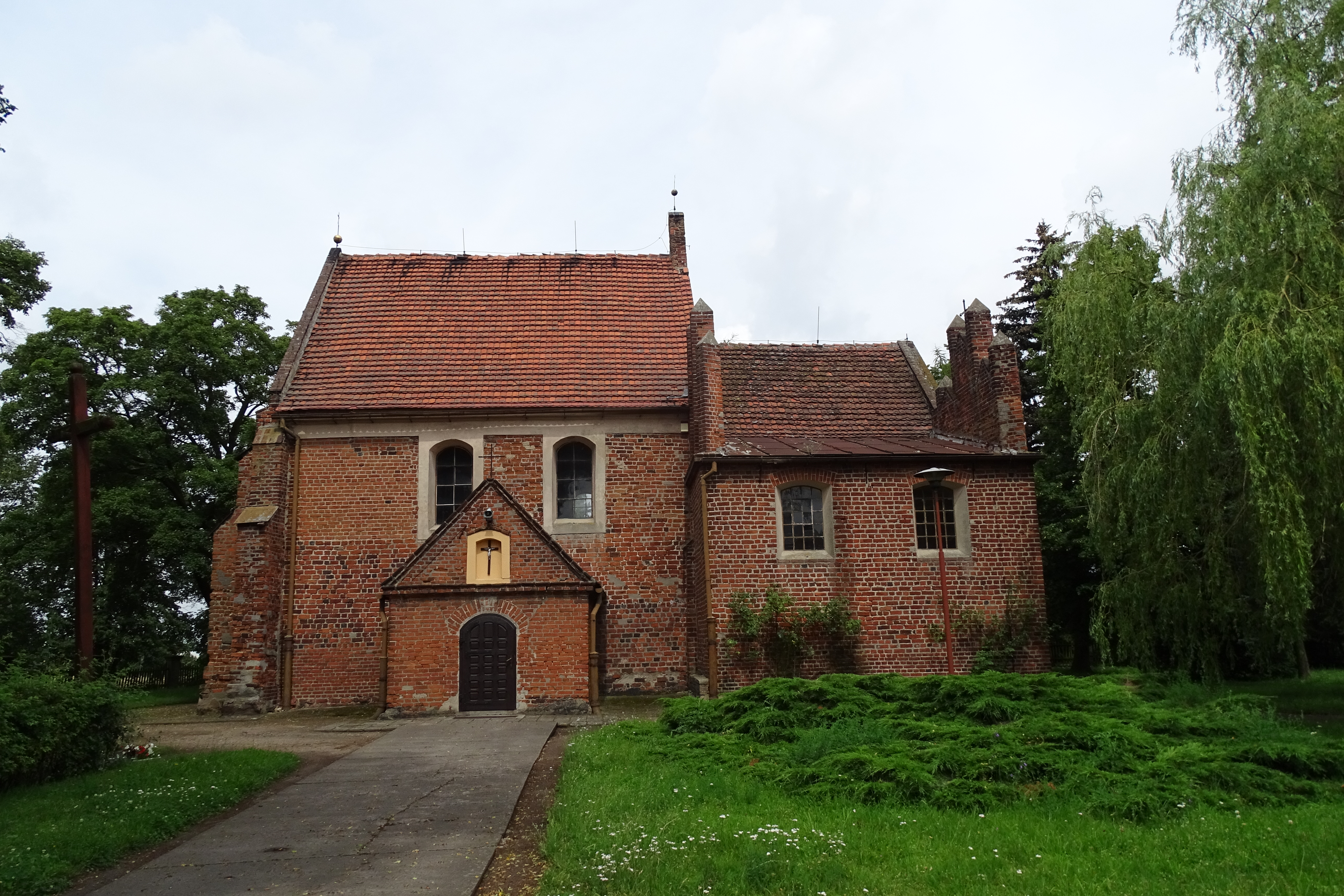 Cerekwica, Żnin County, the church of St Michael, XV century.